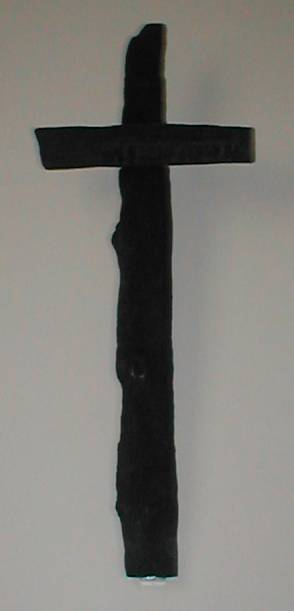 Cross on the wall of the Chapel of St Peter in St Nick's Church, Liverpool. The cross is made from the charred timbers of the old co-parish Church of St Peter, which was located on Church Street.